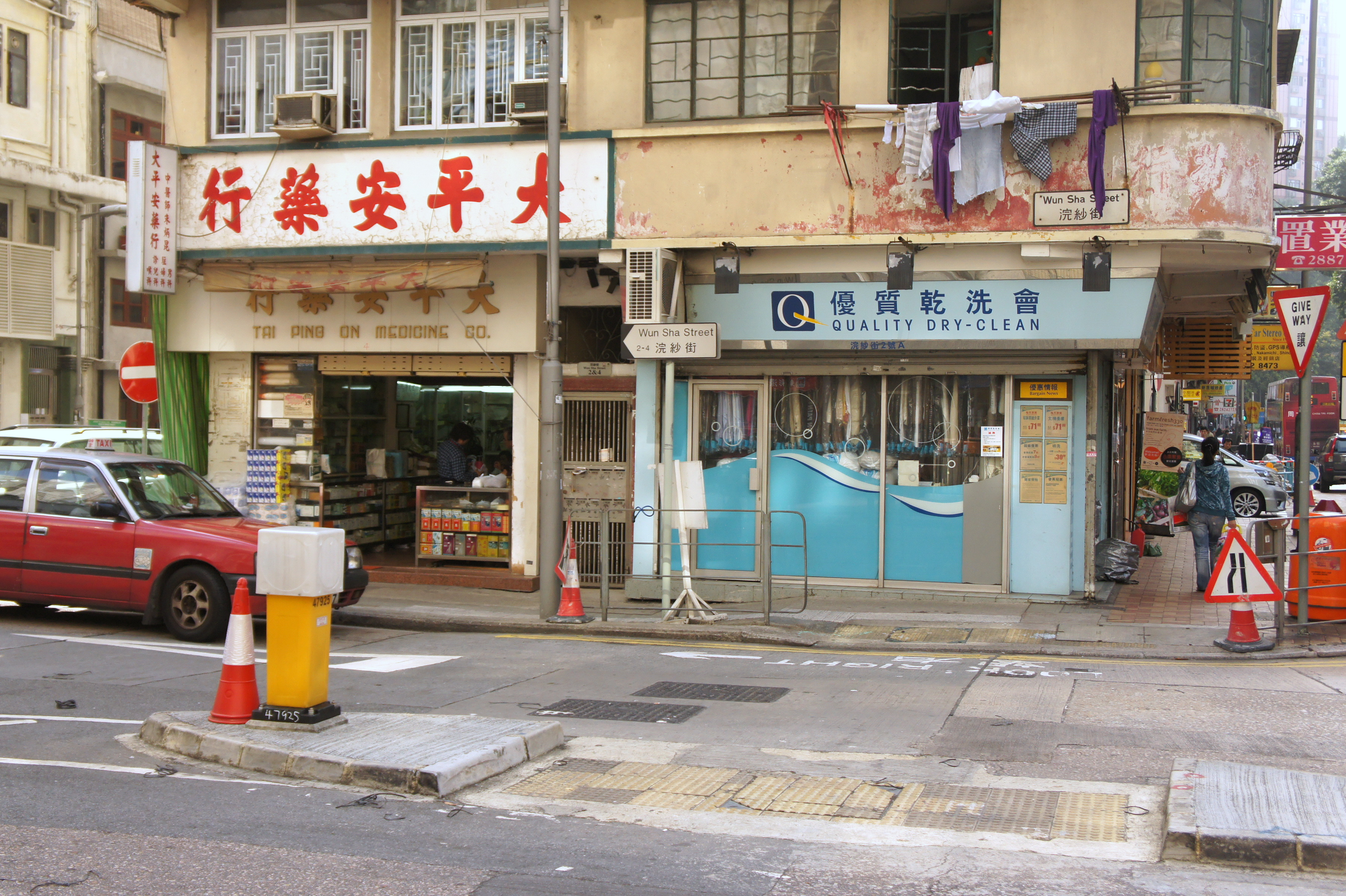 Wun Sha Street, Causeway Bay, Hong Kong.